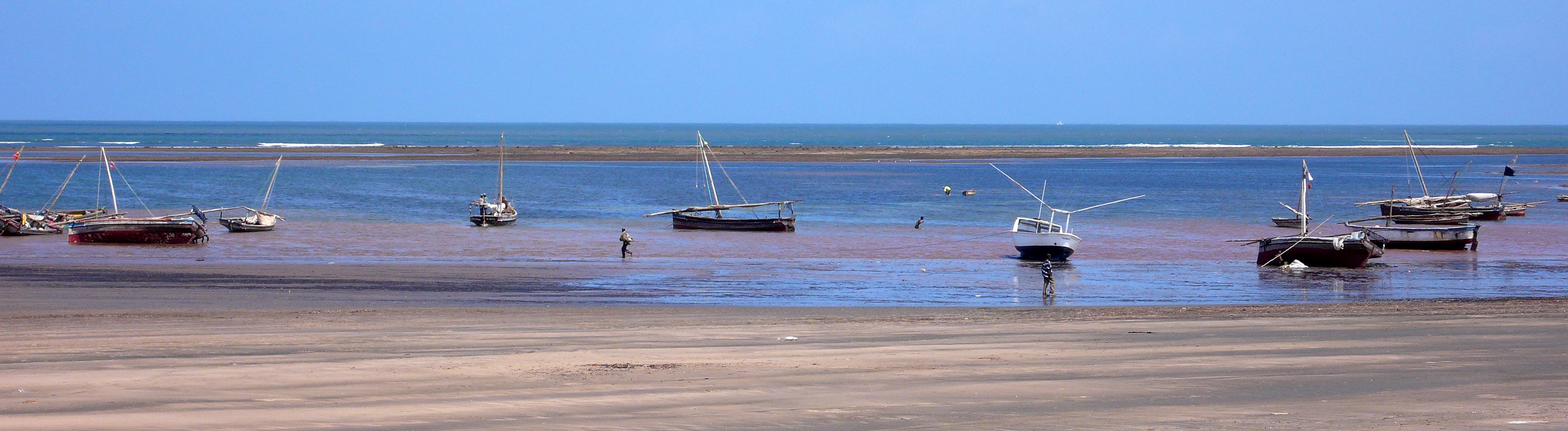 Fishing boats on beach, Malindi, Kenya